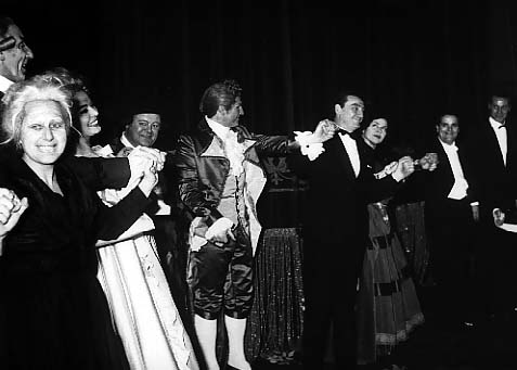 Teatro Massimo in Palermo, Il diavolo in giardino, opera in 3 acts by Franco Mannino, to a libretto by Luchino Visconti (with Filippo Sanjust and Enrico Medioli), 1963 - Artistes and authors saluting the audience (from left: Rena Garazioti, Enrico Campi, Gianna Galli, Antonio Spruzzola, Ugo Benelli, Visconti, Clara Petrella, Mannino e Medioli)